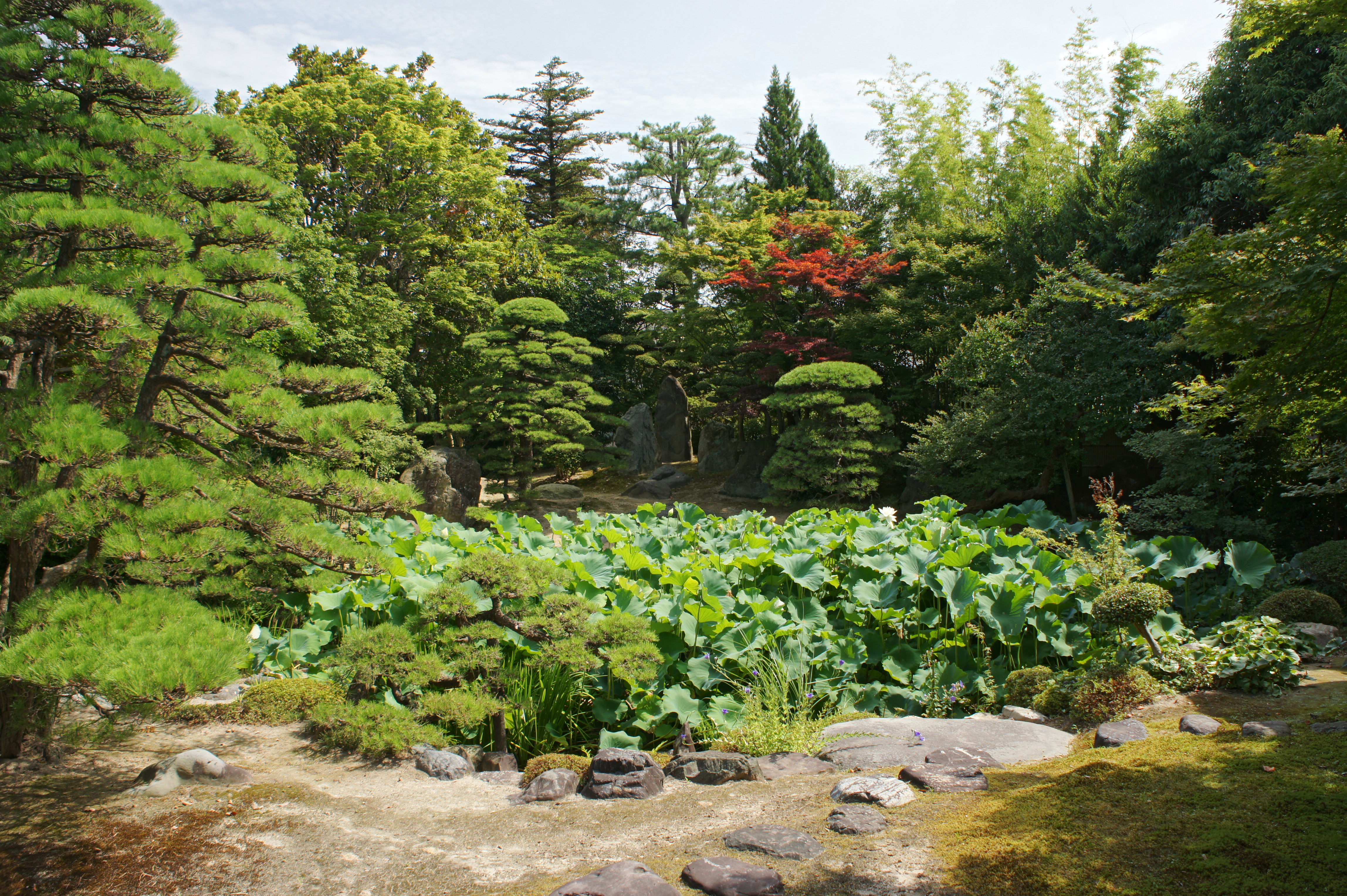 Genchuji in Tottori, Tottori prefecture, Japan.